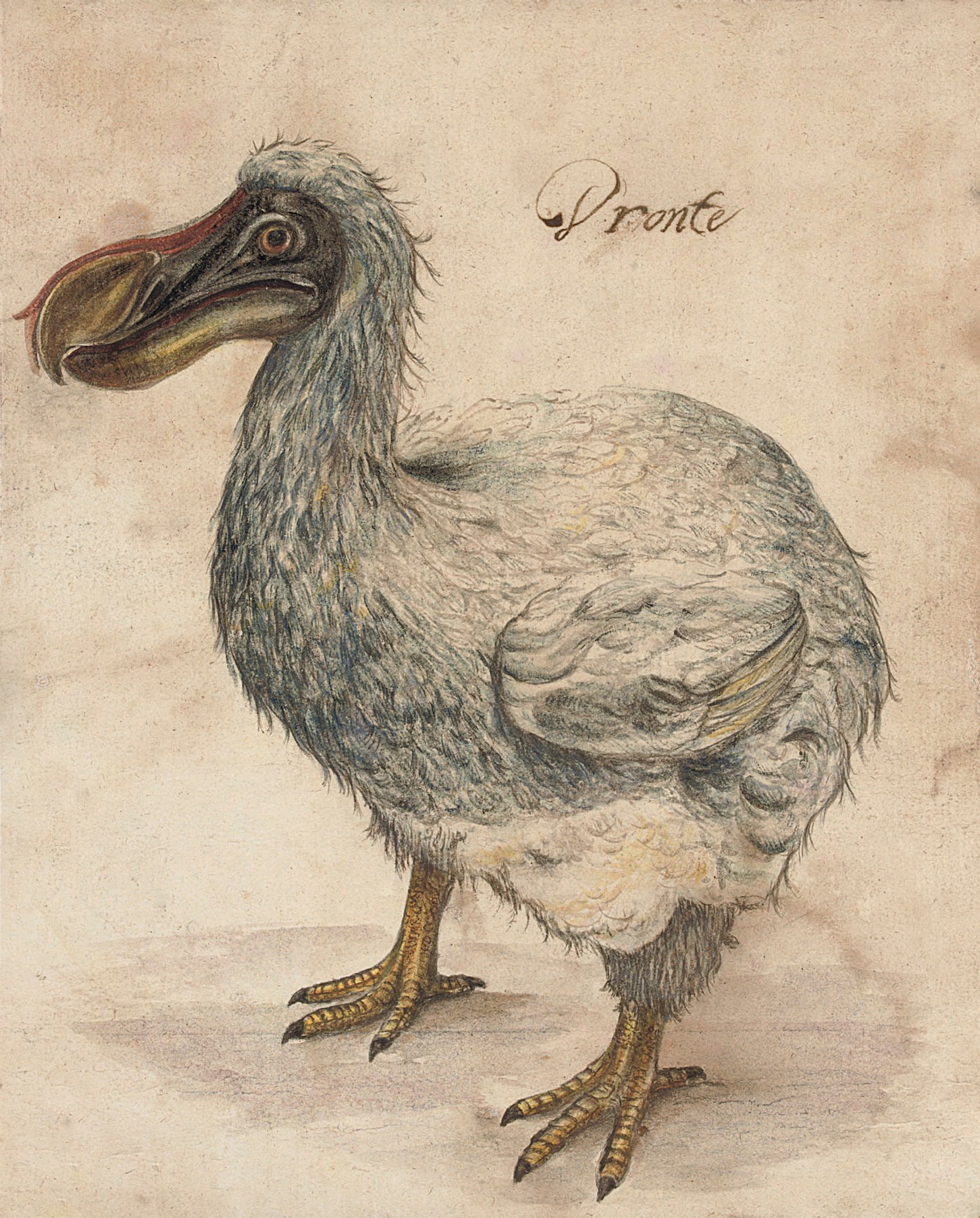 A previously unpublished illustration of a dodo specimen (it is unknown whether it was live or stuffed) with inscription 'Dronte', up for auction at Christie's for £5,000-7,000.